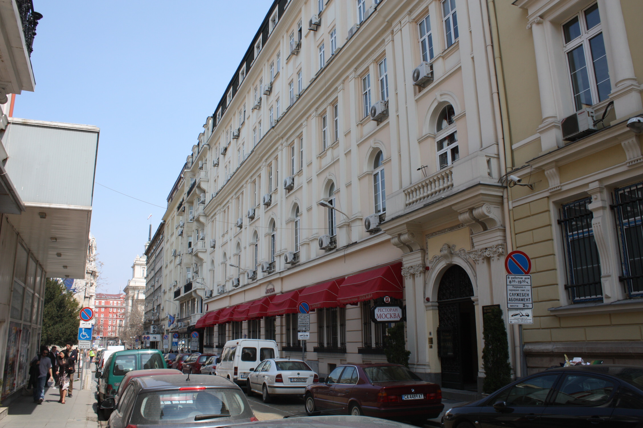 Ministry of Finance, Sofia, Finanzministerium, Sofia, Bulgarien